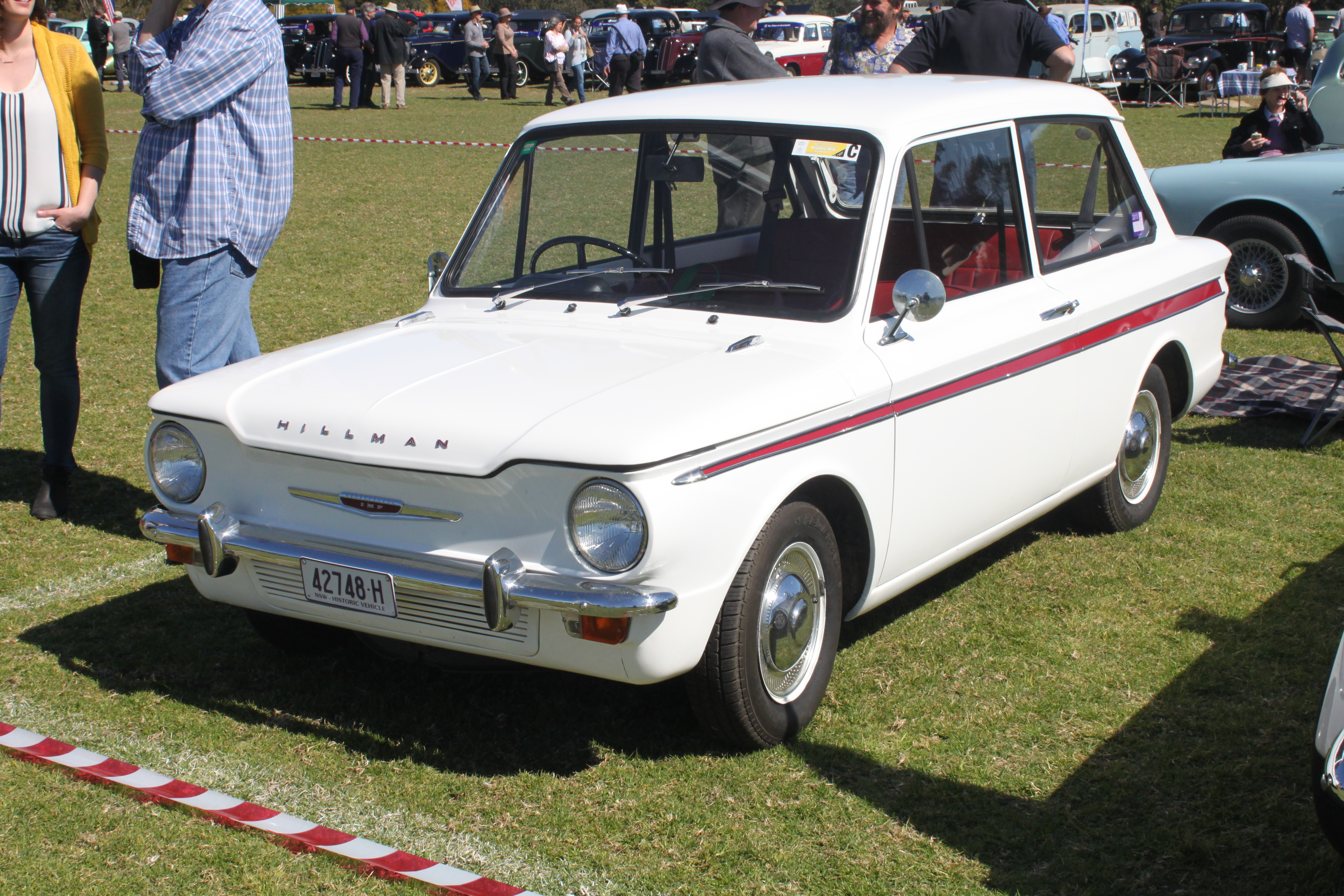 All British Day, Kings School, North Parramatta, NSW August 2015